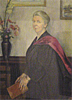 Portrait of Eleanor Jourdain